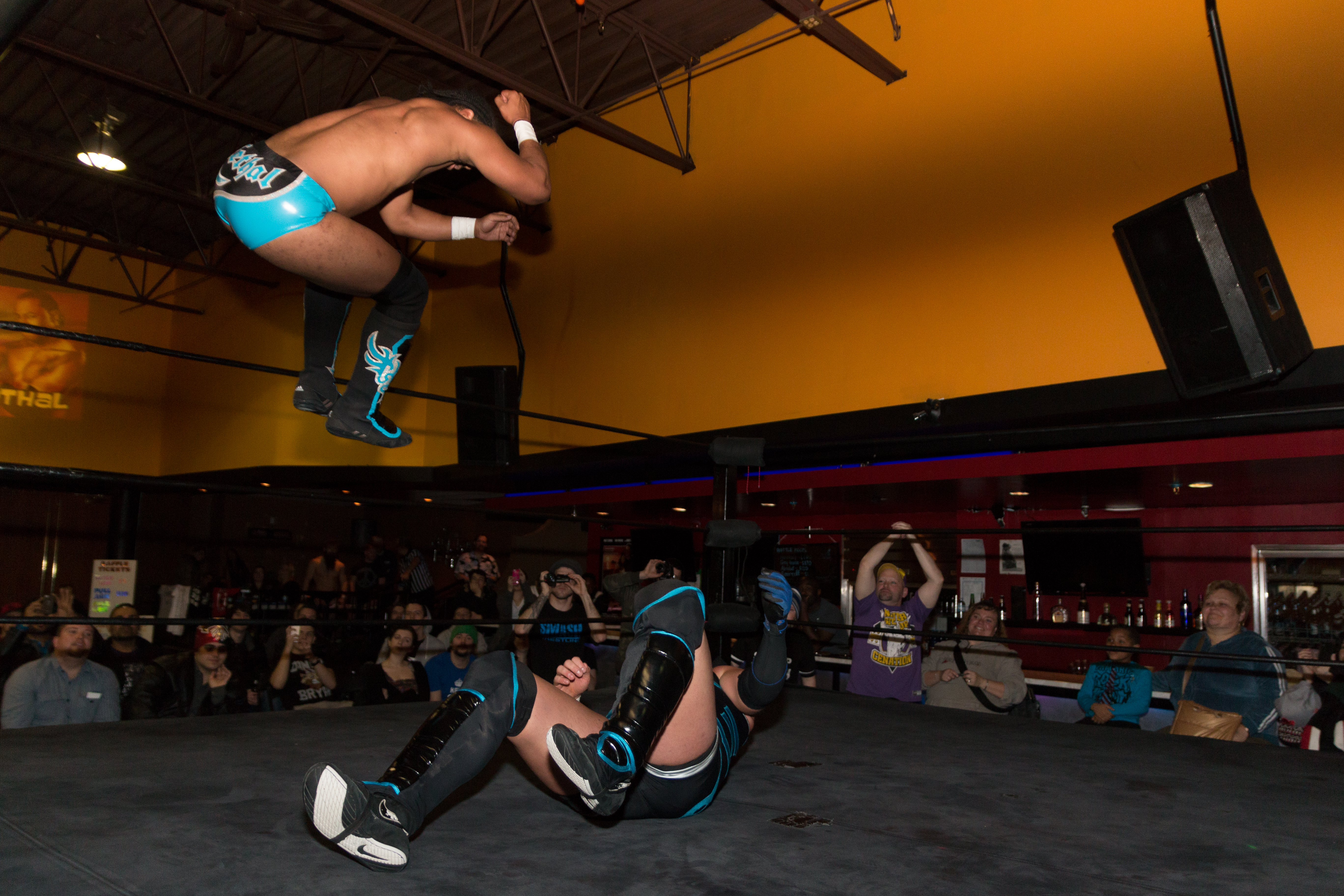 Jay Lethal (left) executing a flying elbow on Scotty O'Shea